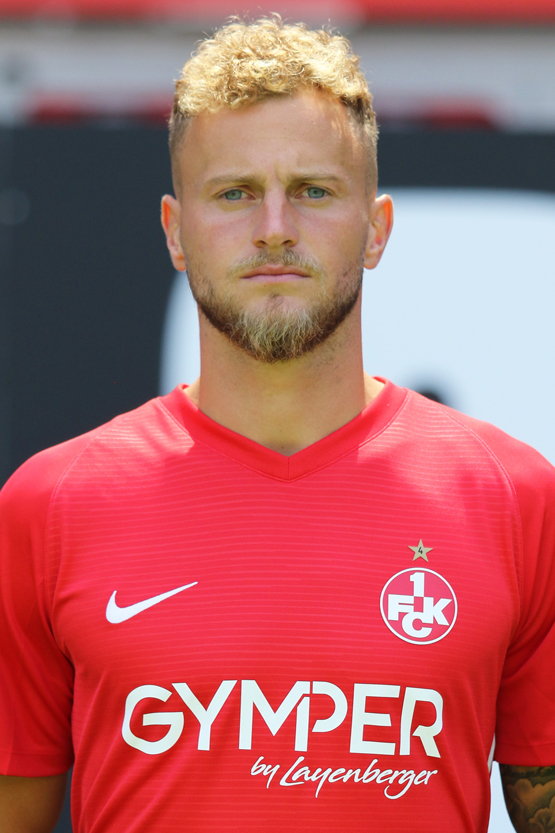 Christoph Hemlein (Nr. 17)